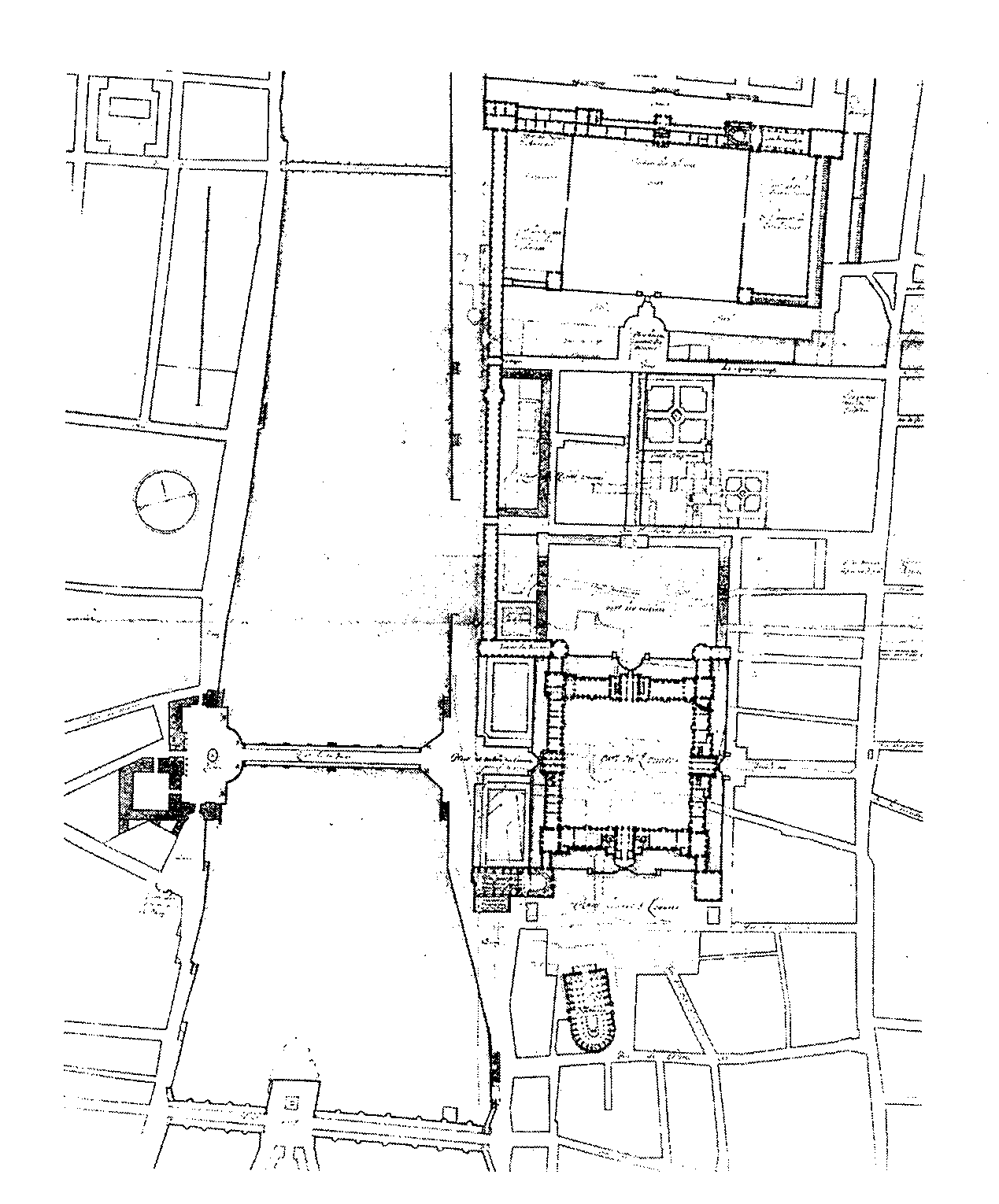 expansion plan of Palais du Louvre (1660) by Louis Le Vau